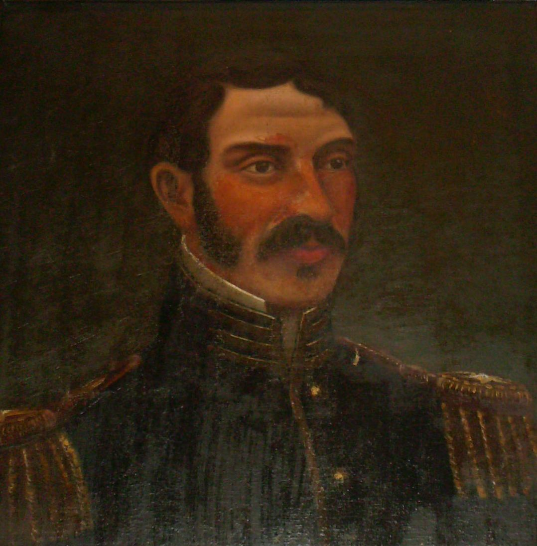 Manuel del Castillo y Rada, (1781 - 24 February 1816)